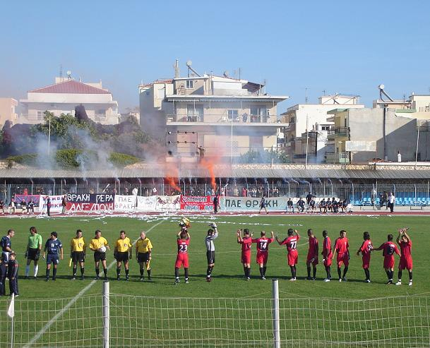 Inside Fotis Kosmas Stadium during a game vs Ionikos